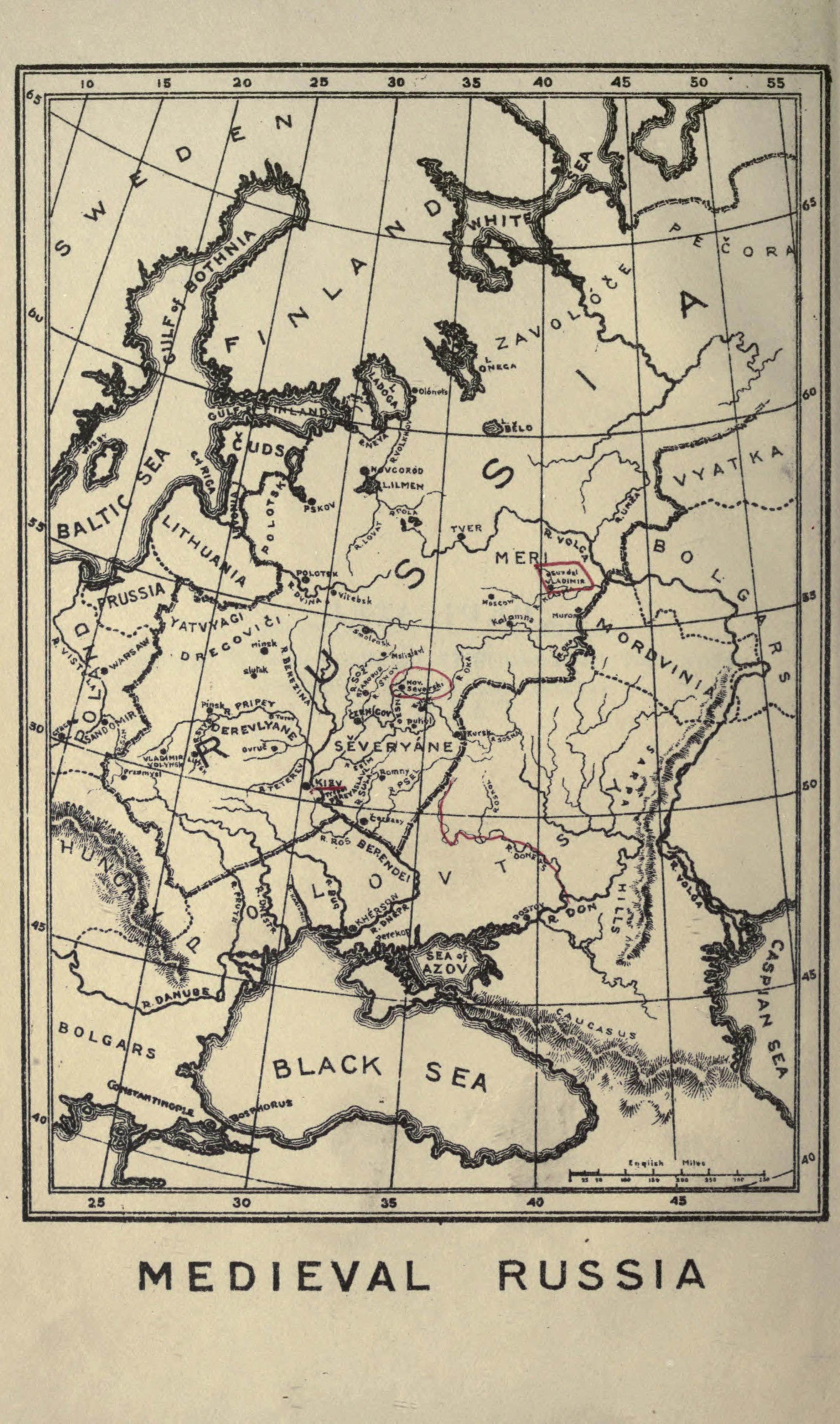 Magnus, Leonard Arthur. The tale of the armament of Igor. A.D. 1185, Oxford University Press, 1915.